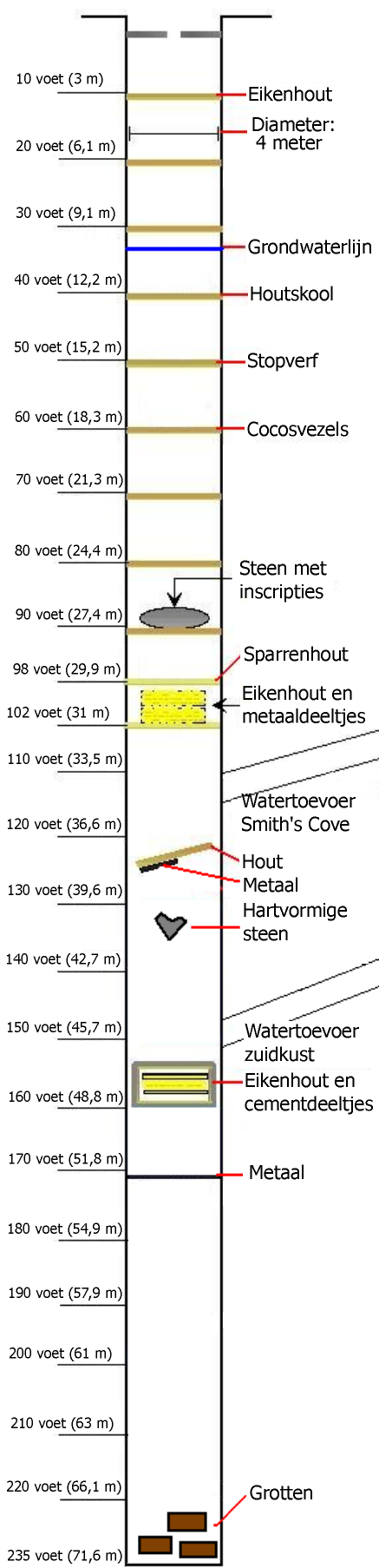 Oak Island Treasure mine shaft